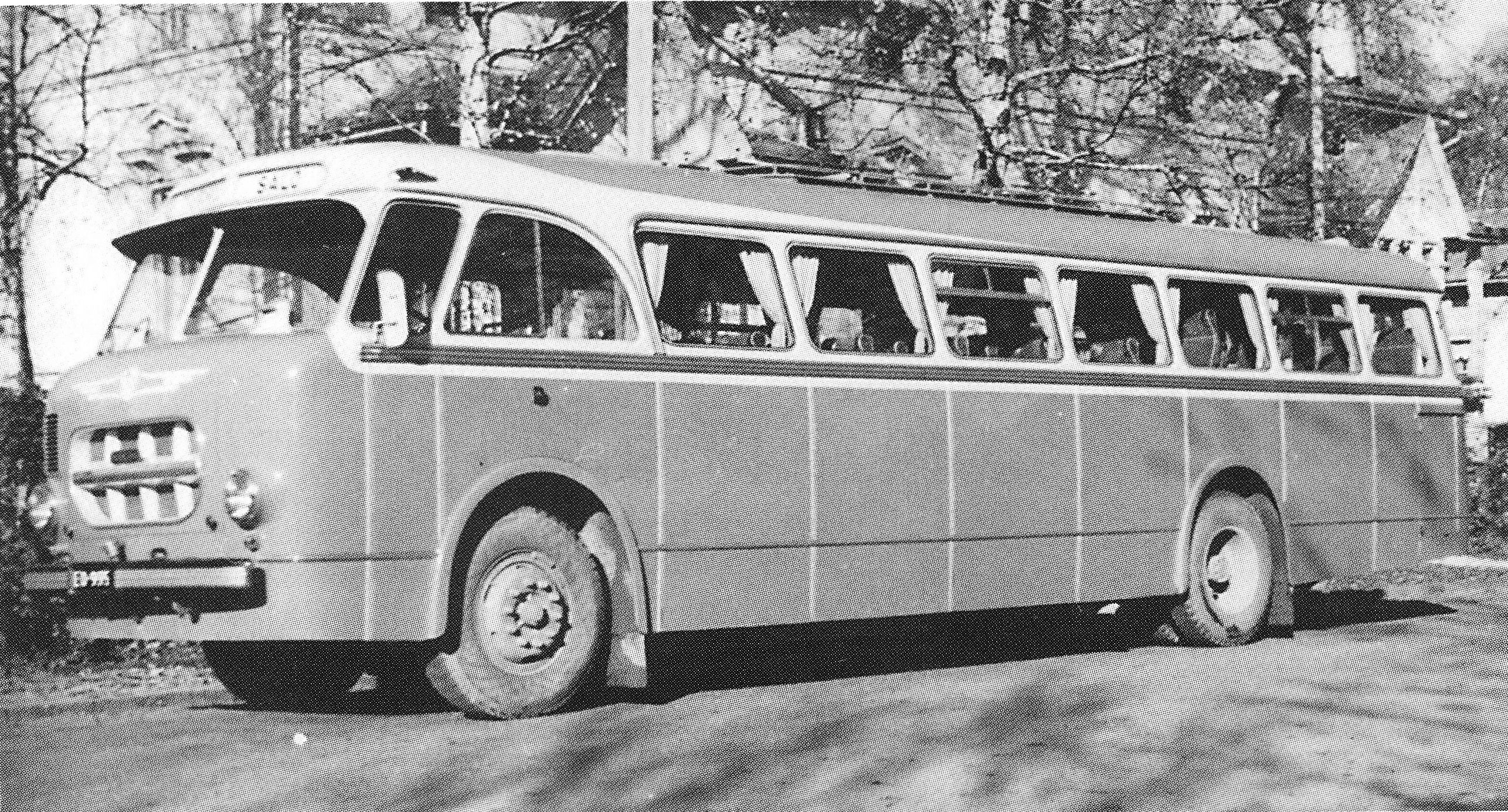 Year 1958 model Volvo B615 bus